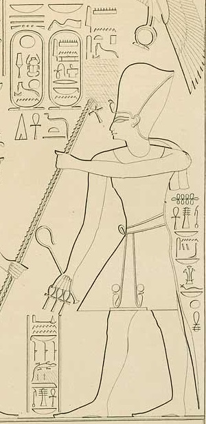 Drawing of a relief depicting pharaoh Sekhemkheperre-setepenre Osorkon-meramun (Osorkon I). From Karnak, Great Temple Forecourt, angle C. Reign of Osorkon I, 22nd Dynasty, Third Intermediate Period.